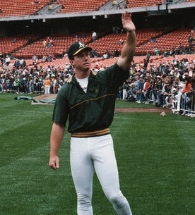 MLB player Mark McGwire